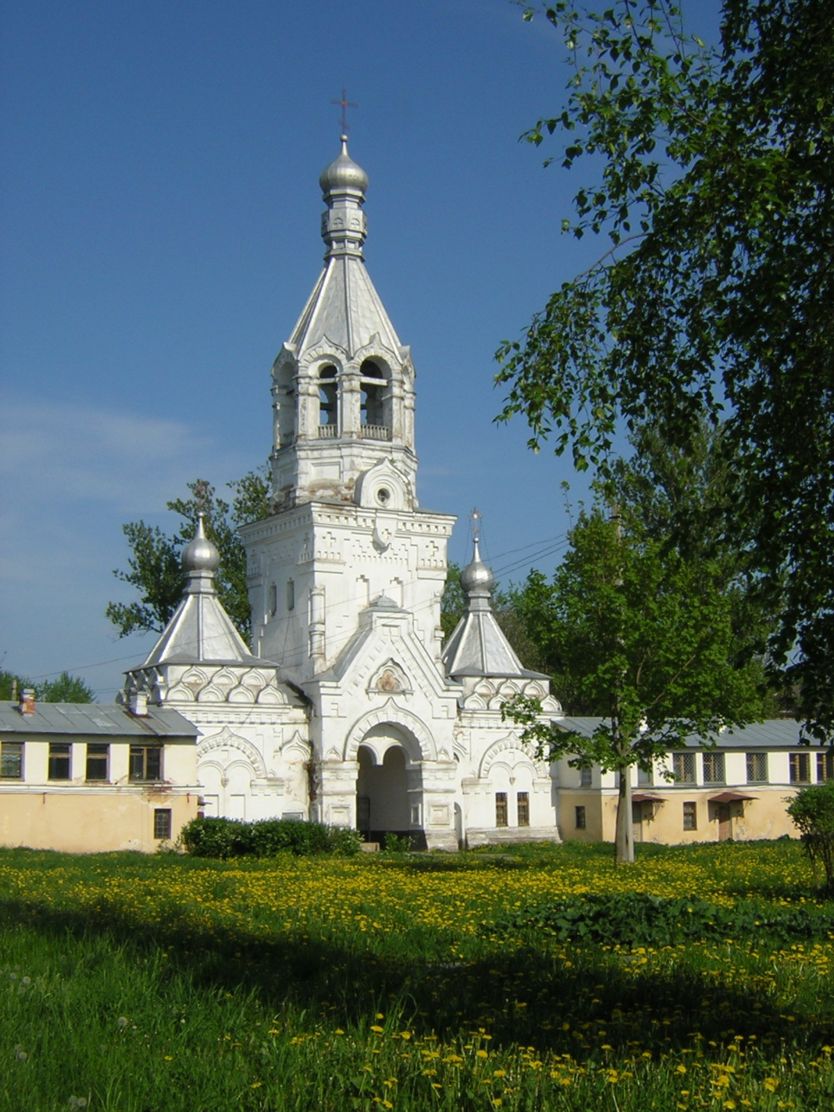 Bell tower of Desyatinny monastery inVeliky Novgorod